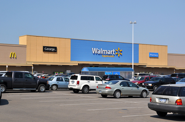 Walmart St Catharines, Ontario (Former Woolco)